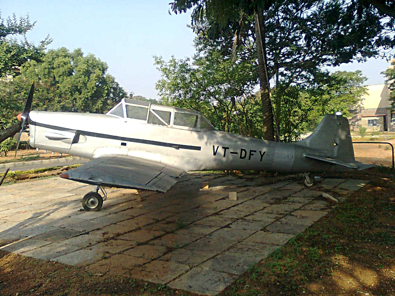 Another view of the HAL HT-2 military trainer developed by Hindustan Aeronautics Limited.